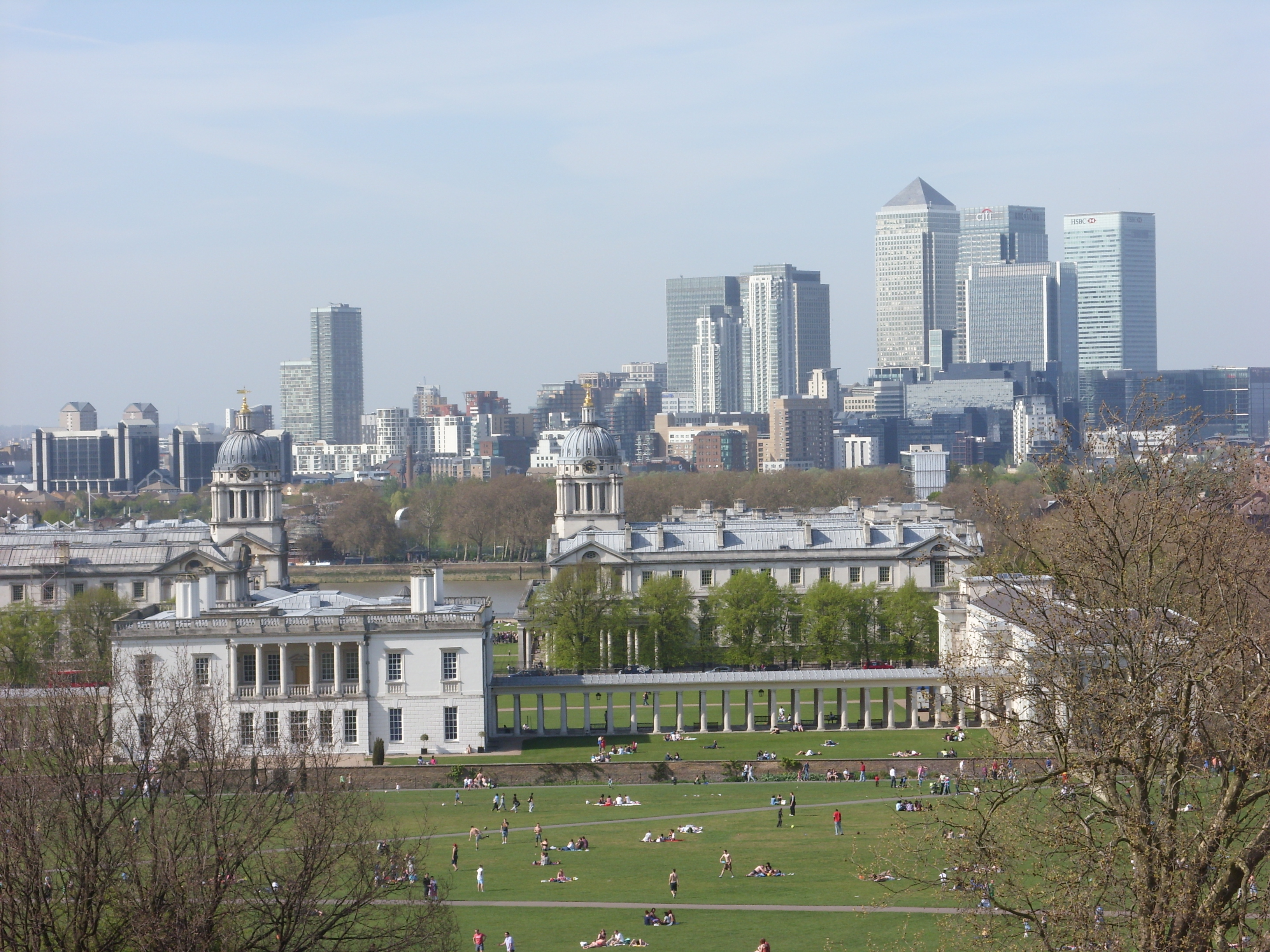 Canary Wharf from Greenwich Park